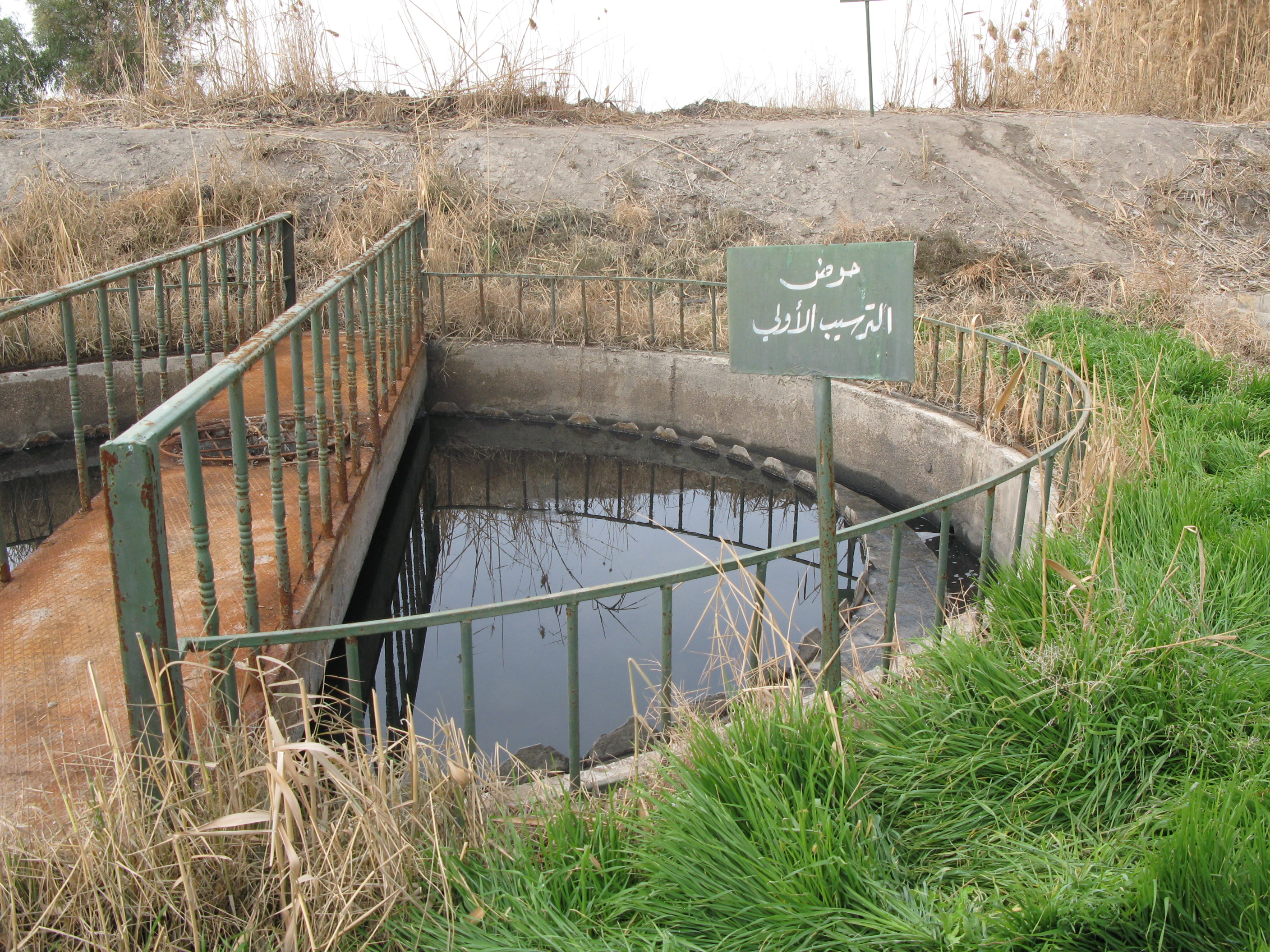 Worldwide - constructed wetlands